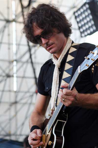 Drigo's soundcheck